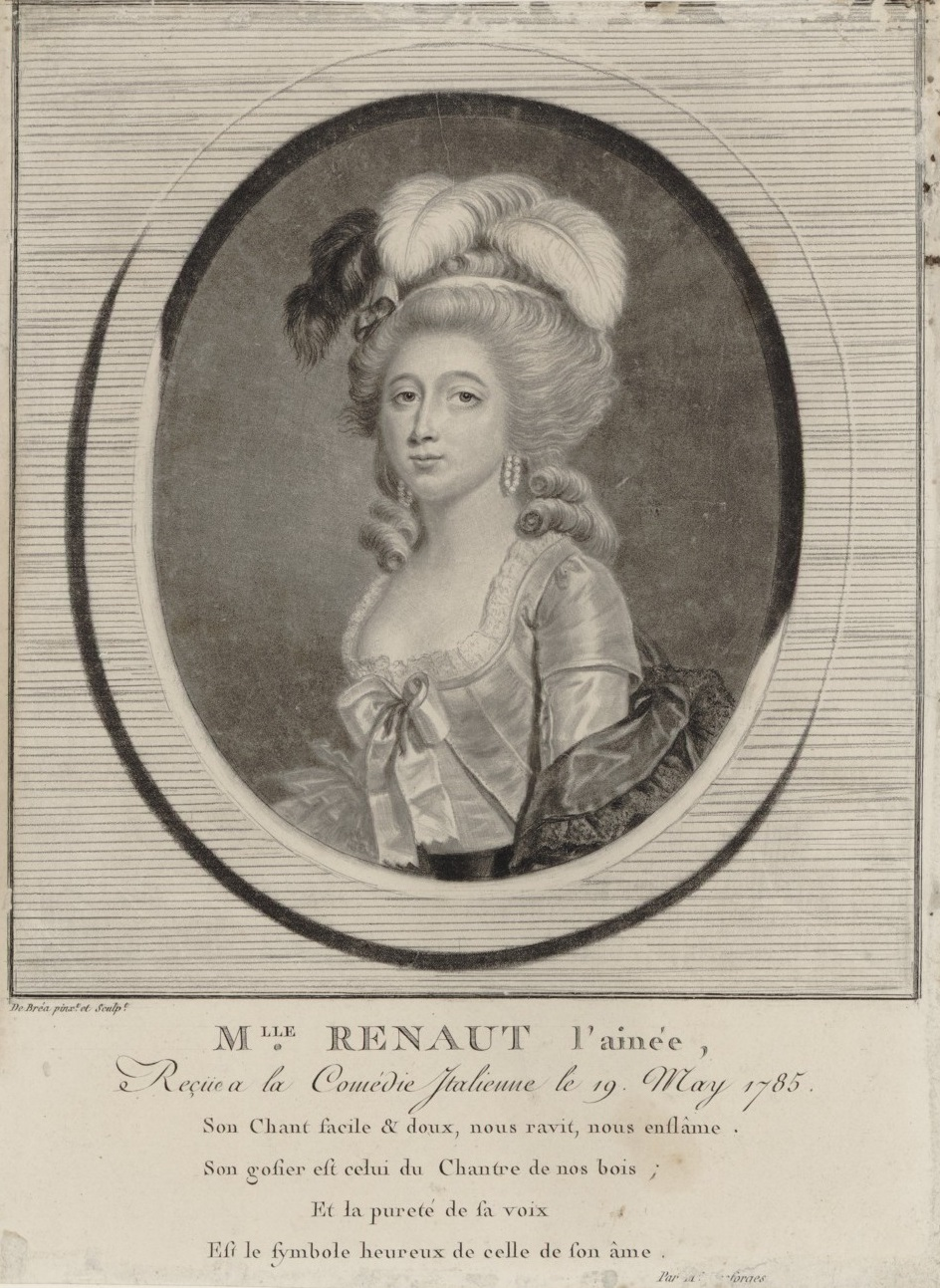 Portrait of the French opera singer Rose Renaud. The poem beneath the portrait reads: "Son Chante facile & doux nous ravit, nous enflâme. / Son gosier est celui du Chantre de nos bois; / Et la pureté de sa voix / Est le symbole heureux de celle de son âme.". English translation: "Her singing, effortless and sweet, ravishes us, sets us on fire, / Her voice is that of a nightingale; / And the purity of her voice / Is the happy symbol of her soul."